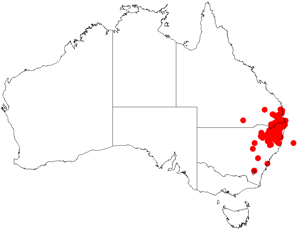 Acacia viscidula occurrence data from Australasia Virtual Herbarium downloaded from on 8 December 2018